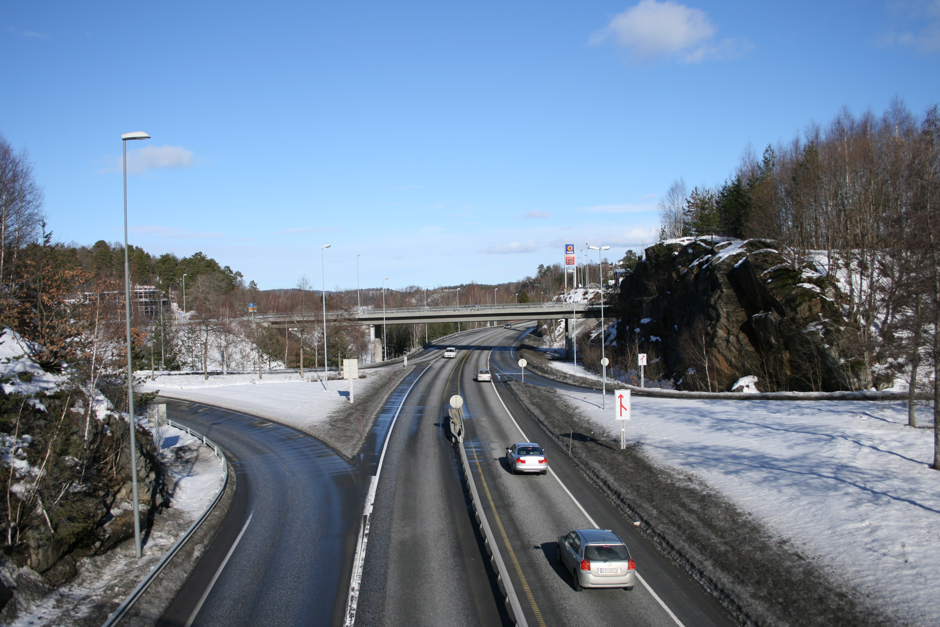 E18 at Harebakken Arendal